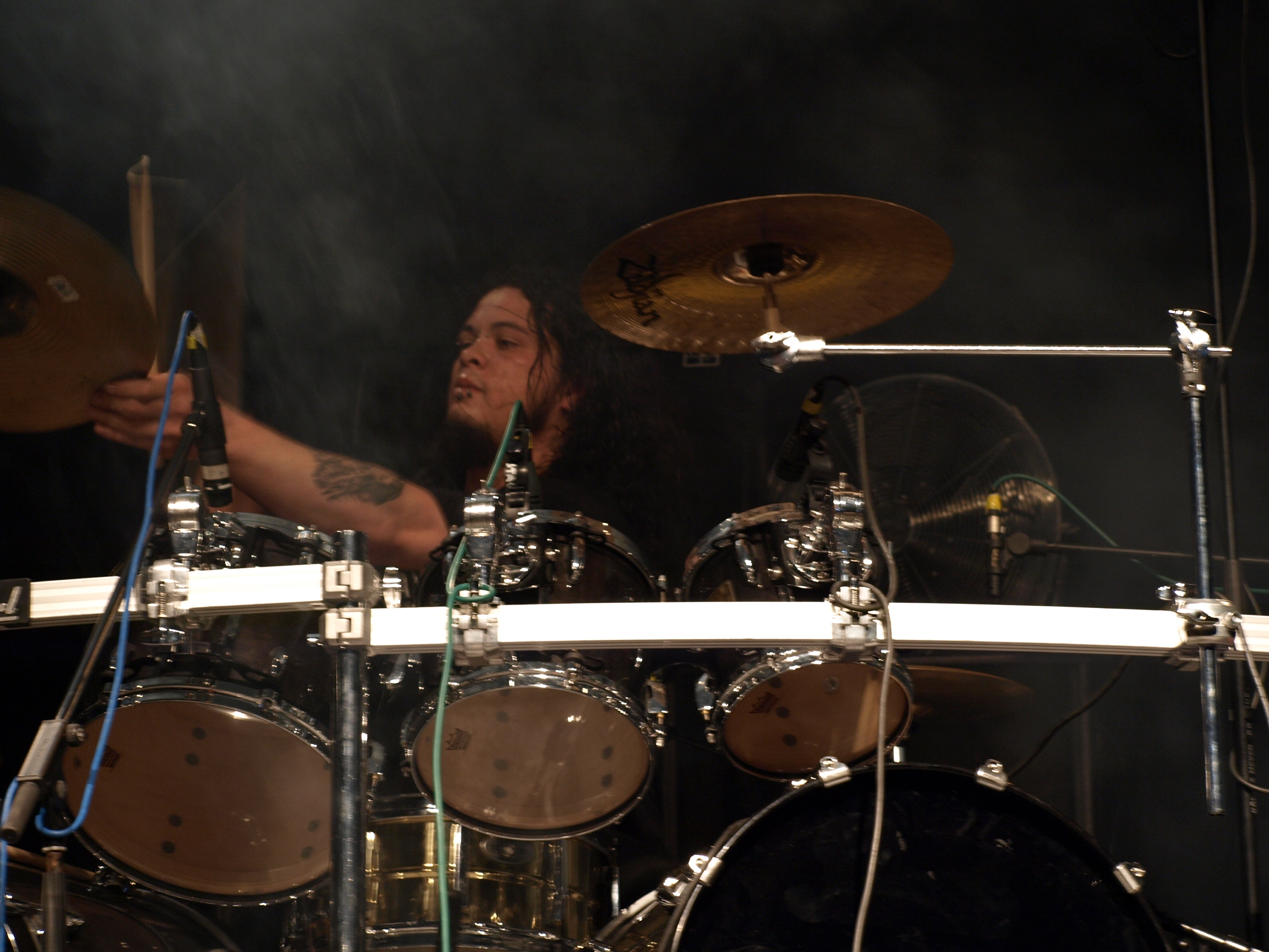 Norwegian black metal band Pantheon I live at Jalometalli 2008 in Oulu.